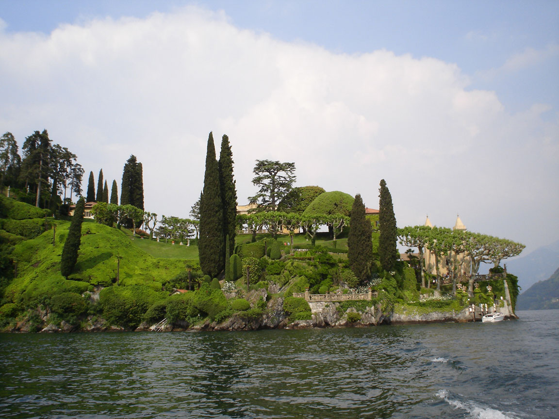 This was taken in Villa Balbianello on Lake Como in north Italy- the location used for Anakin and Padmé's wedding in Star Wars Episode 2.